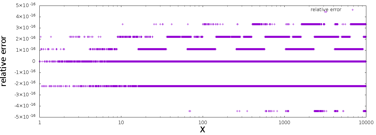 Relative error between Fast inverse square root that carry out 4 iterations in Newton's root-finding method and 1/sqrt . Note that double precision is adopted.